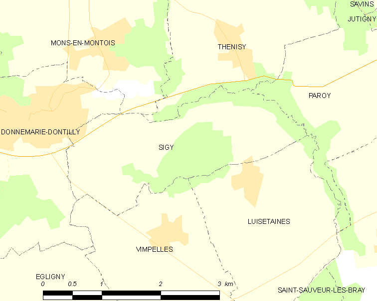 Map of French municipality Sigy